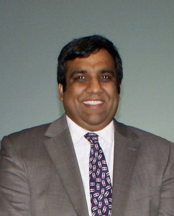 Councillor Shaffaq Mohammed 2010